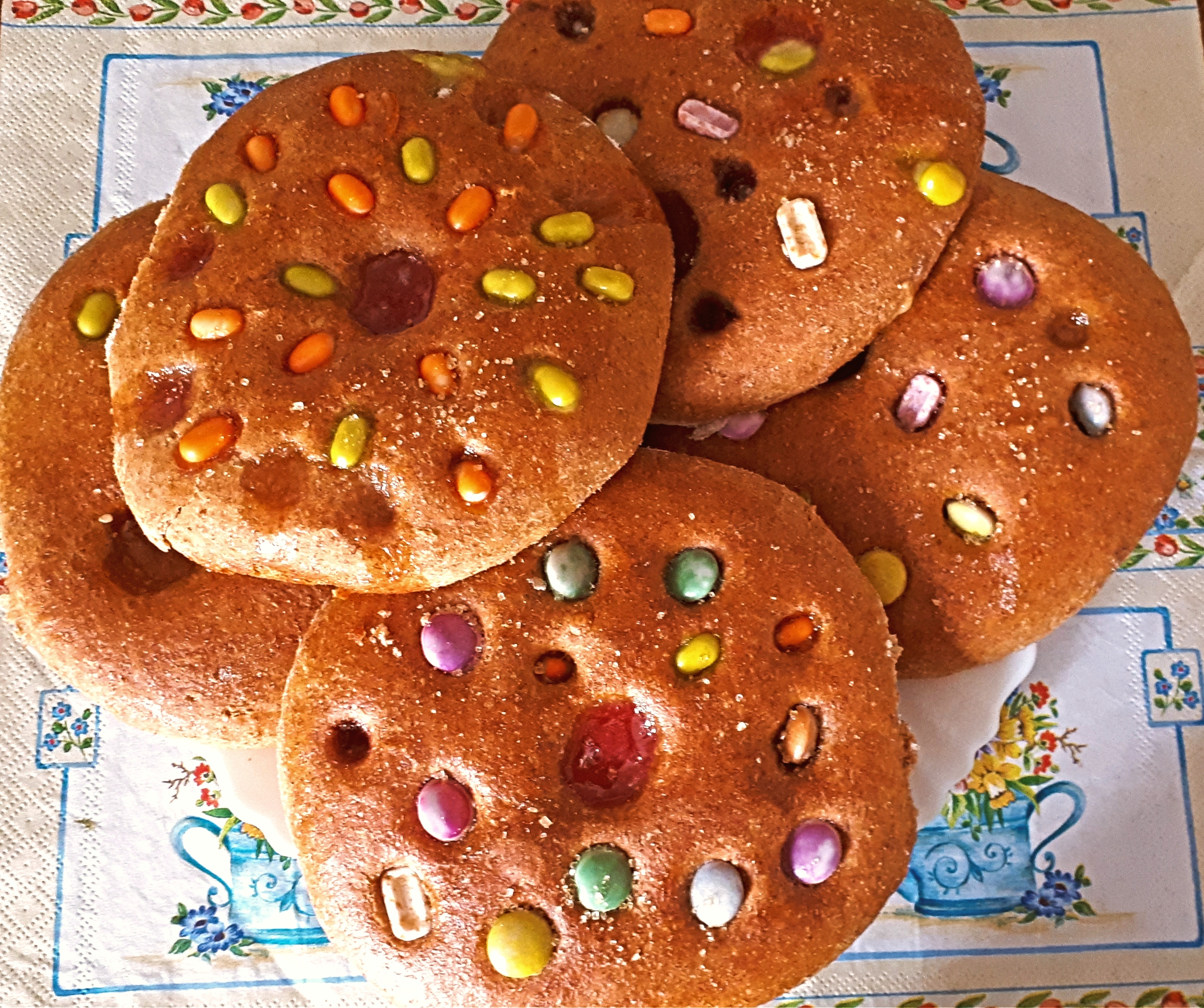 Traditional Sweet bread with candies